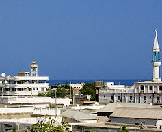 Picture of Bosaaso